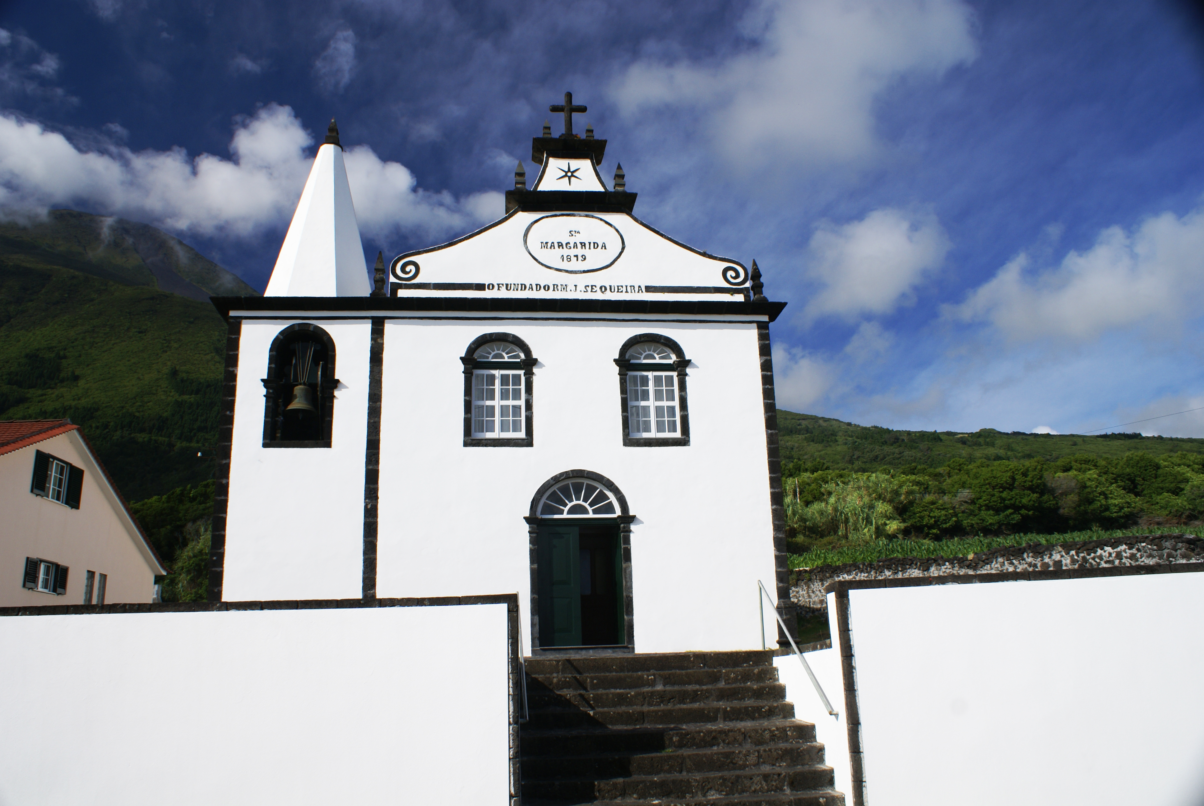 Front façade of the Chapel of Santa Margarida, São Caetano, Madalena do Pico, Pico (Azores), Portugal